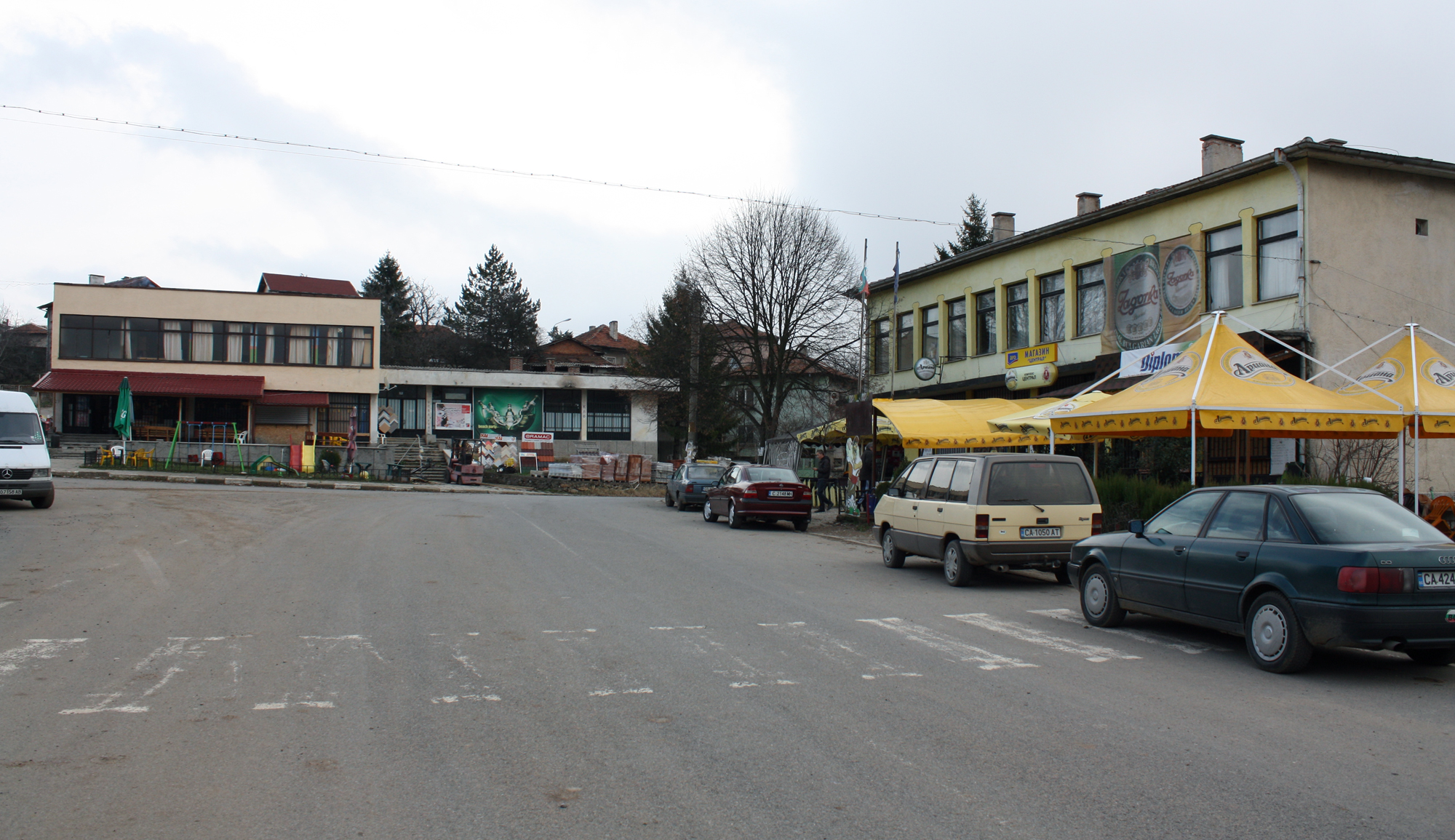 Baylovo downtown